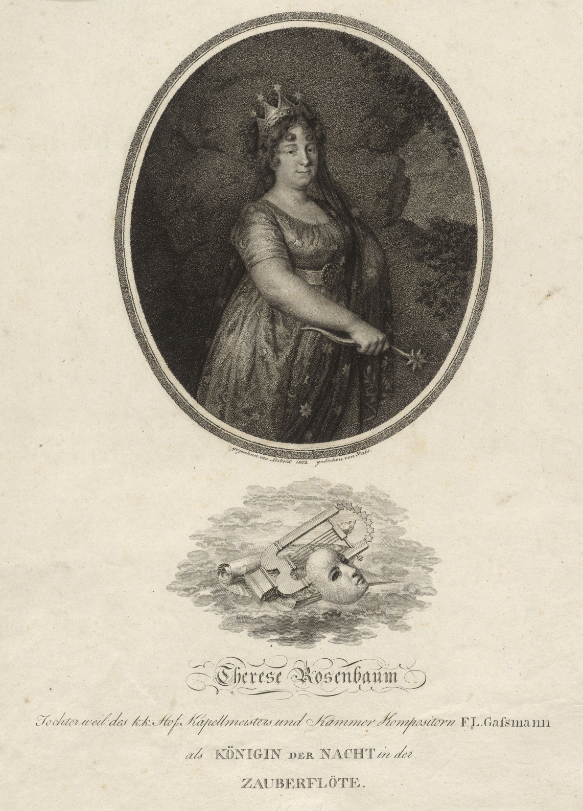 Portrait of the opera singer Therese Rosenbaum, née Gassmann (1774–1837), as Queen of the Night in Mozart's The Magic Flute